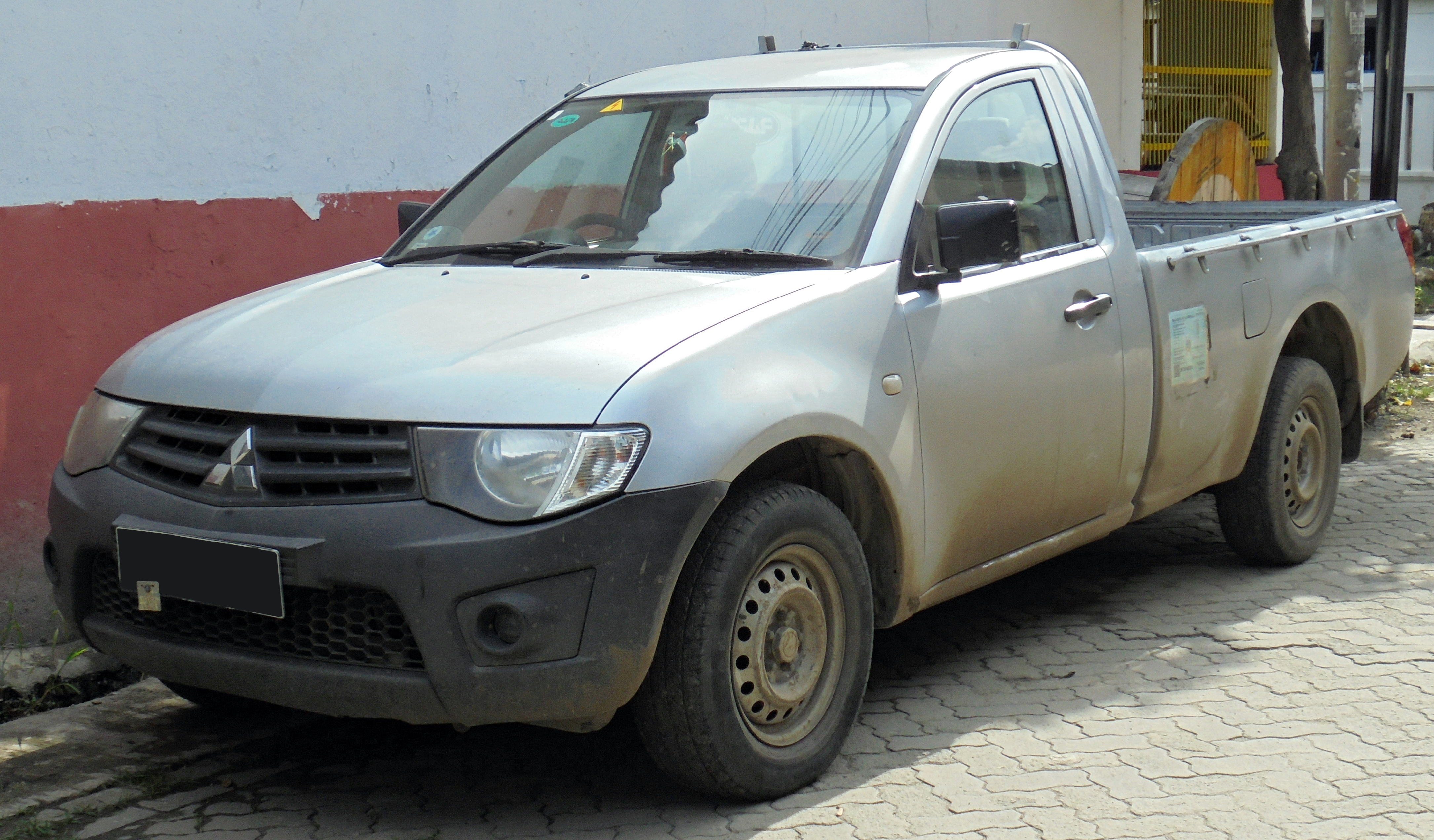 2013 Mitsubishi Strada Triton Single Cab 2.5 GLX 2WD utility (KA4T) photographed in Tangerang Regency, Banten, Indonesia.